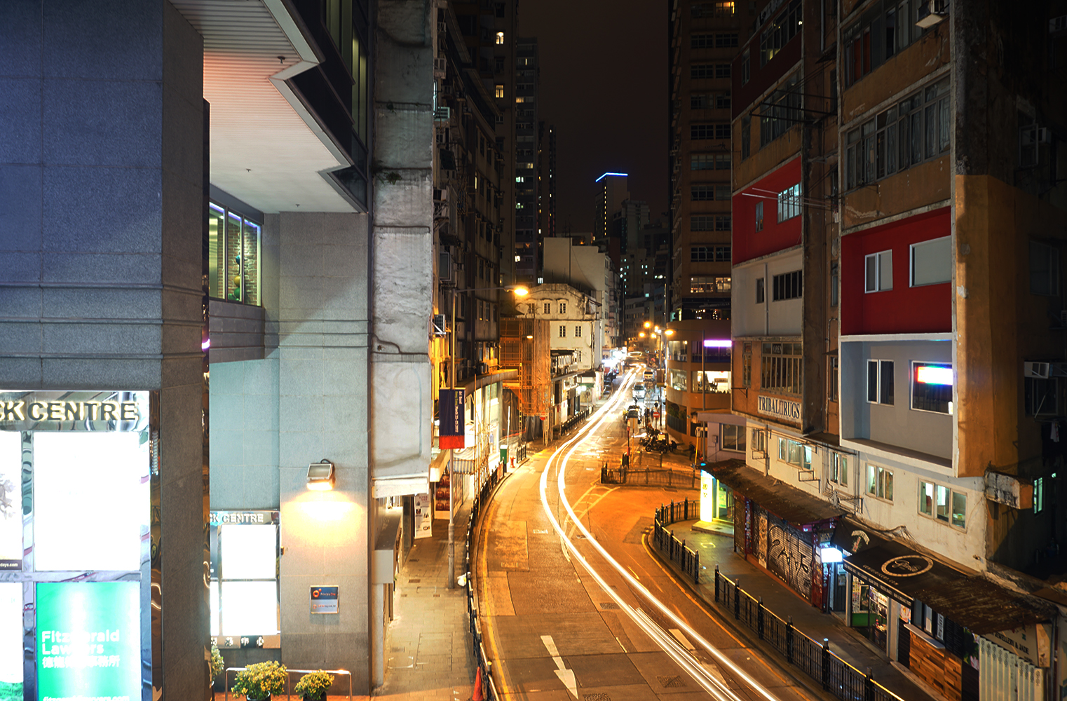 Hollywood Road in Central, Hong Kong.